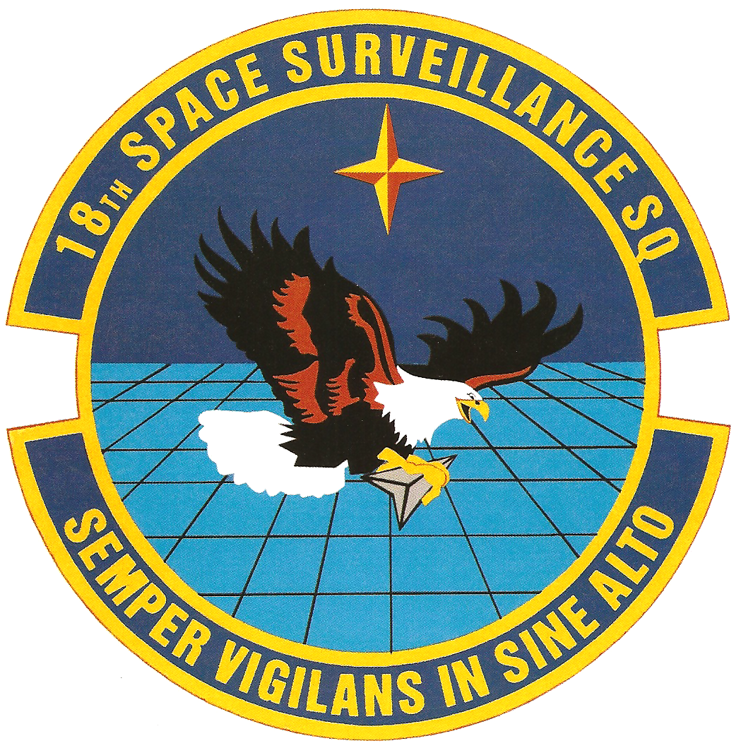 18th Space Surveillance Squadron emblem